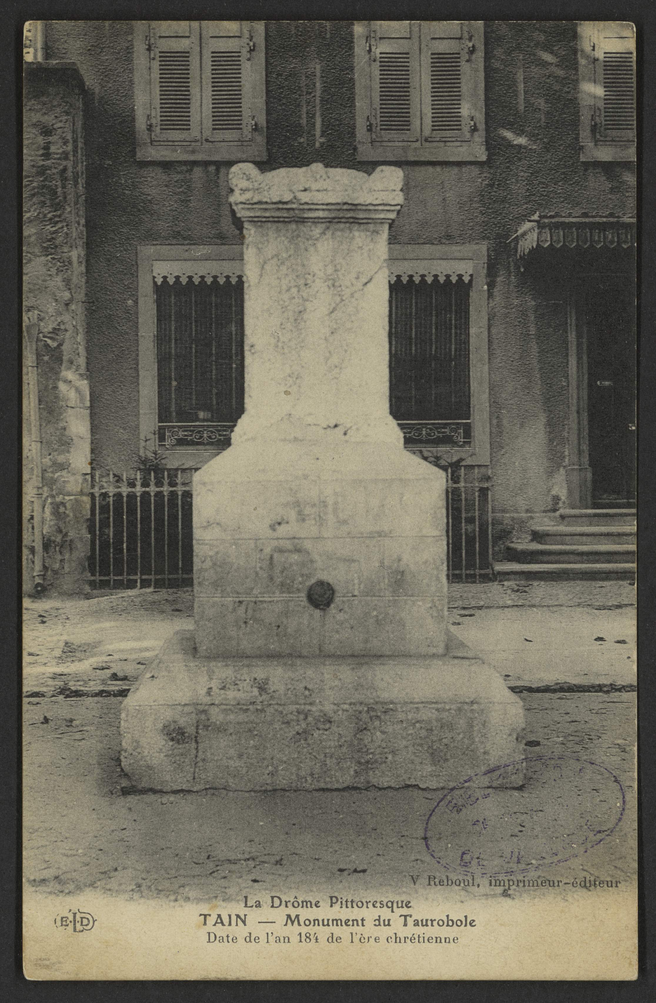 CA 1905-1913